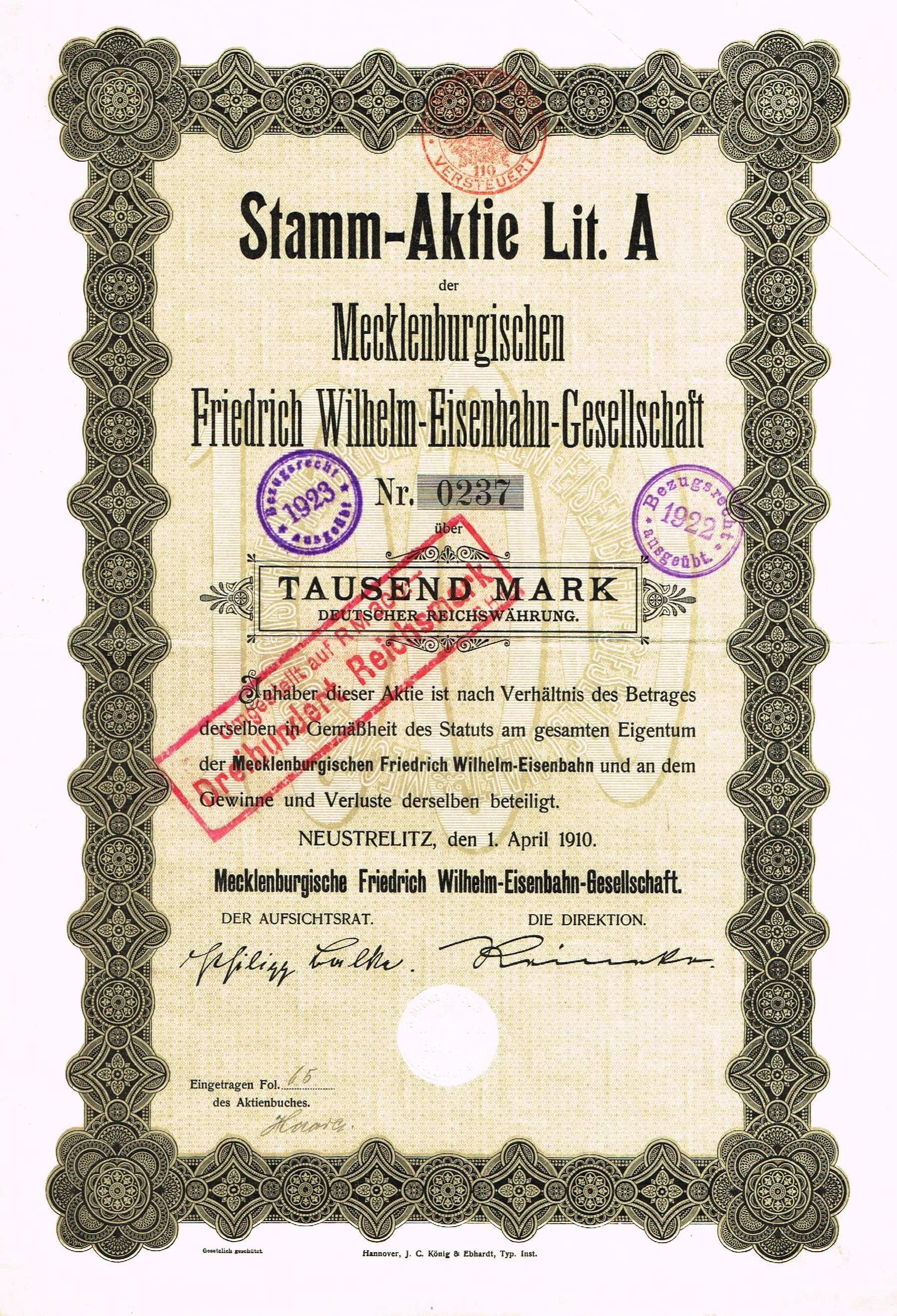 Share of the Mecklenburgischen Friedrich Wilhelm-Eisenbahn-Gesellschaft, issued 1. April 1910